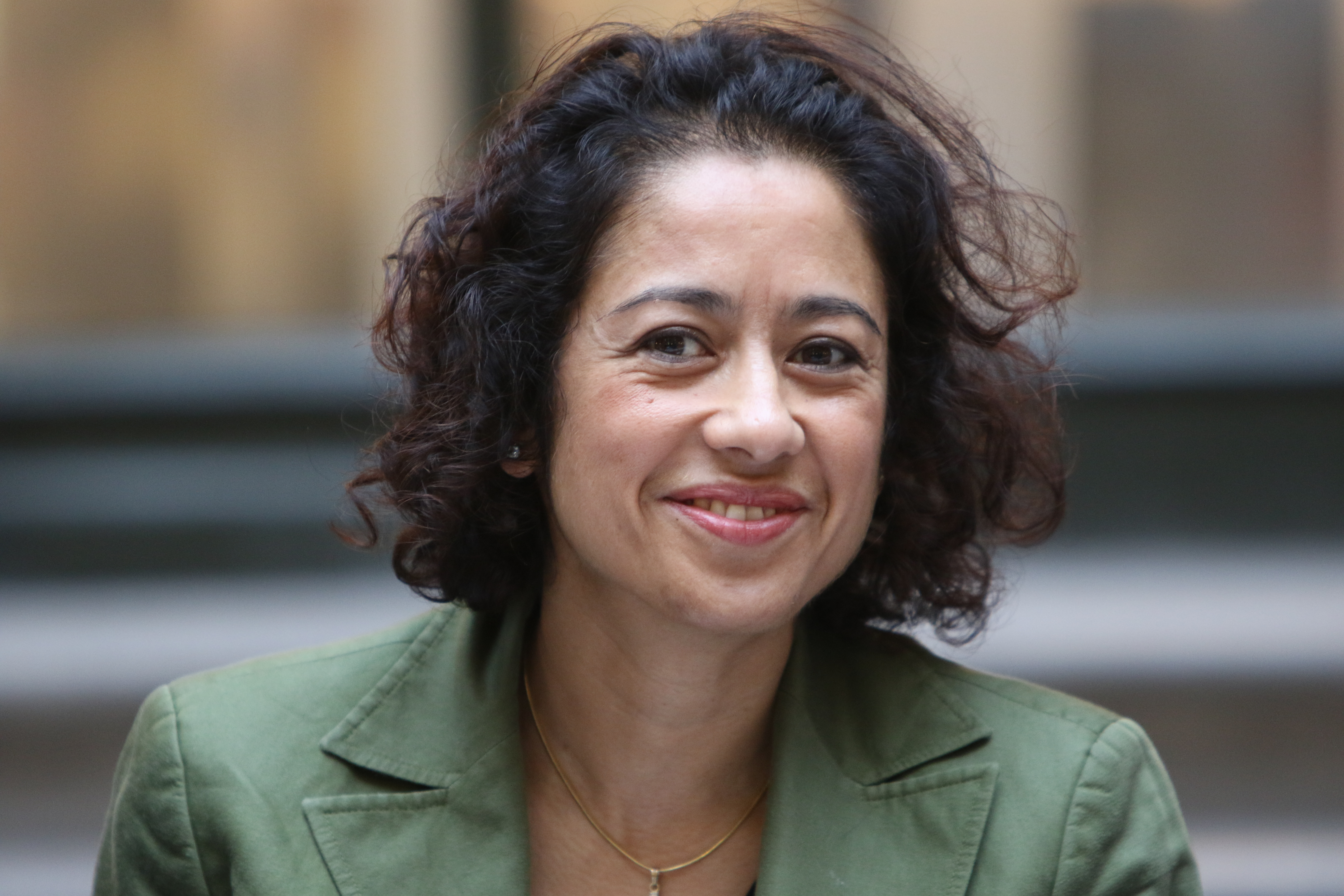 Samira Ahmed, BBC journalist and presenter at the Week of Women panel discussion and networking event at the Foreign & Commonwealth Office in London, 17 November 2016.